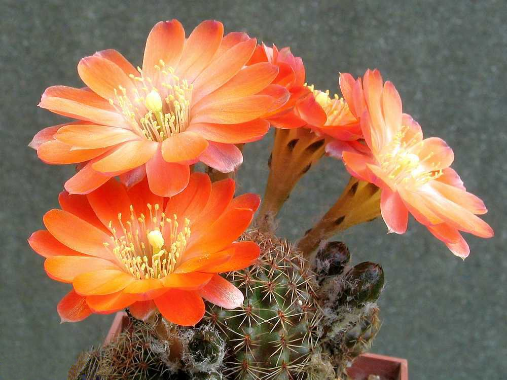 Rebutia pygmaea (Fries) Br. & R. f. WR335 - cultivated plant (seed marked WR335) from own collection.